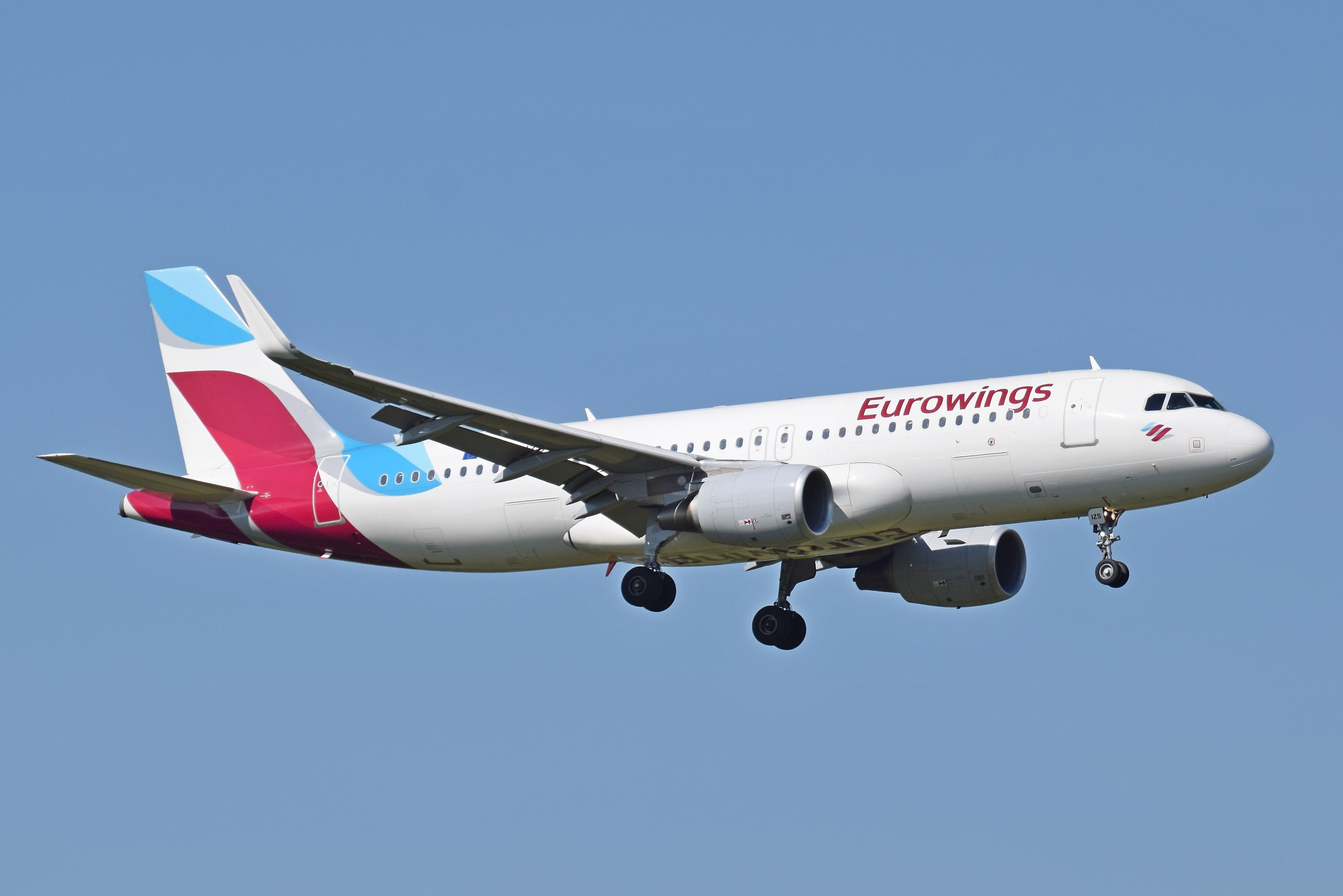 Eurowings Airbus A320-200 (D-AIZS) arrives London Heathrow Airport, England.